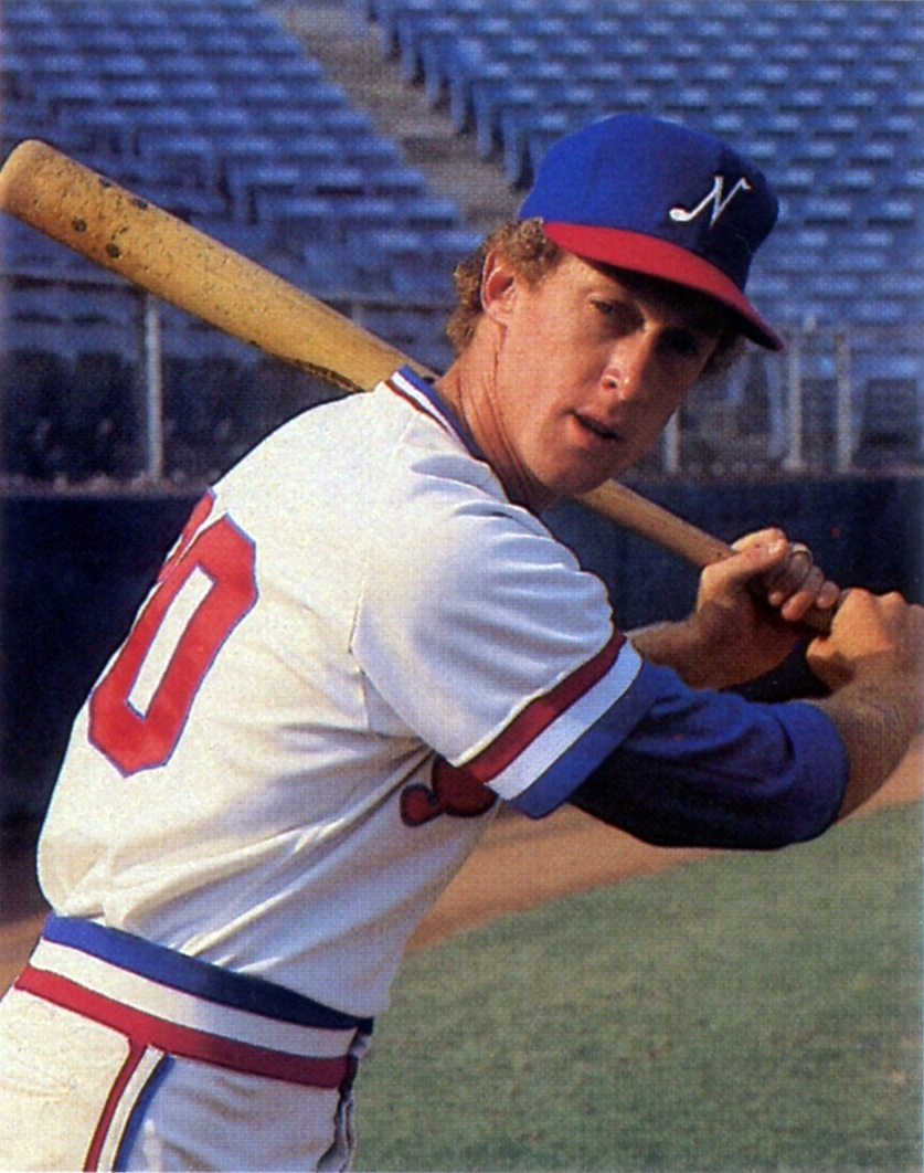 Second baseman Brian Butterfield of the 1982 Nashville Sounds Minor League Baseball team of the Southern League